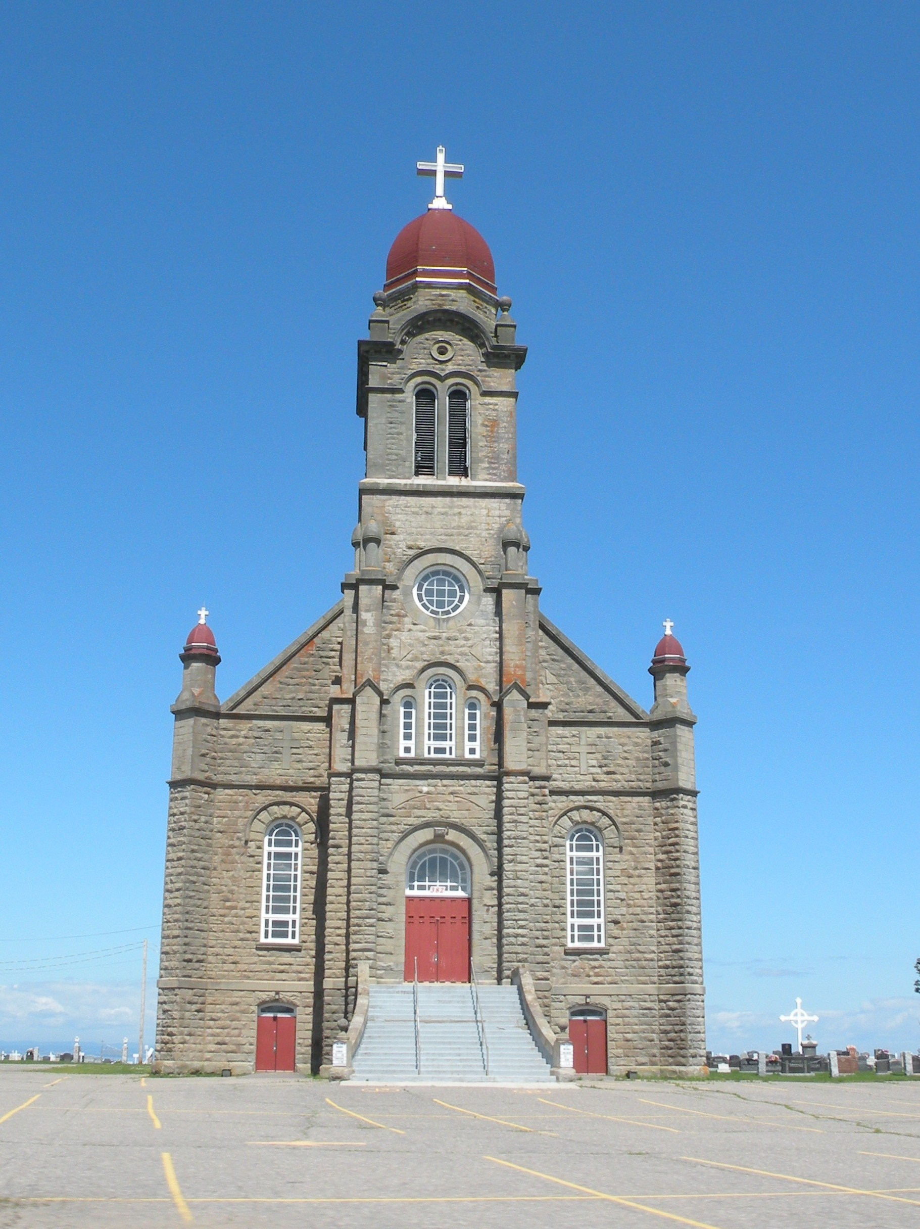 Front view of the St. Simon and St. Jude church in Grande-Anse, New Brunswick.